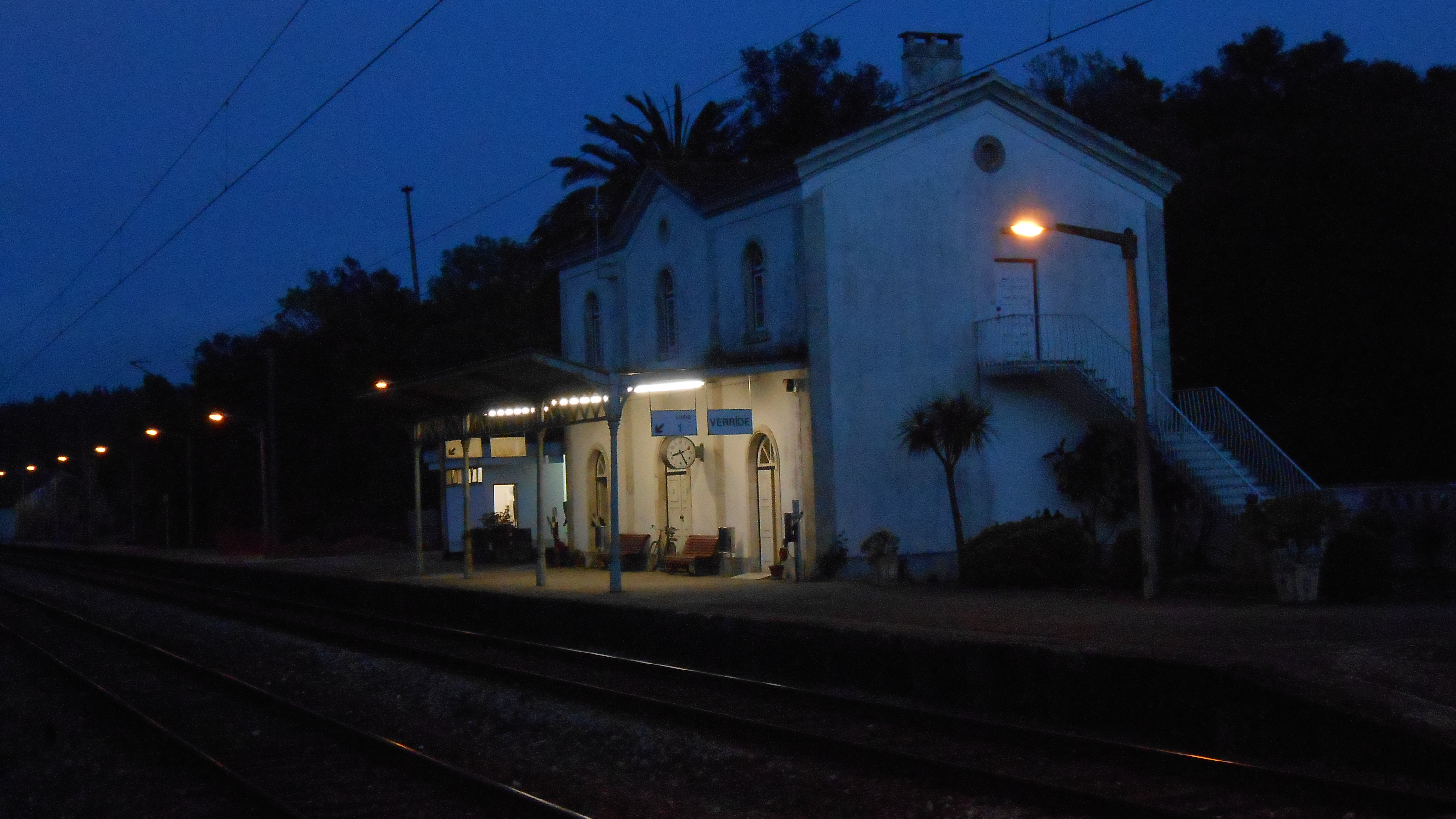 The Verride train station at the Ramal de Alfarelos line, in the municipality of Montemor-o-Velho, district of Coimbra, Portugal